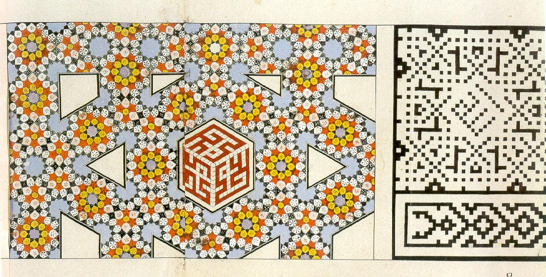 Panel from the Topkapi Scroll. Repeat unit of a fragmentary square panel, and quarter repeat unit of a double-layered pattern for relief mosaic tile work.